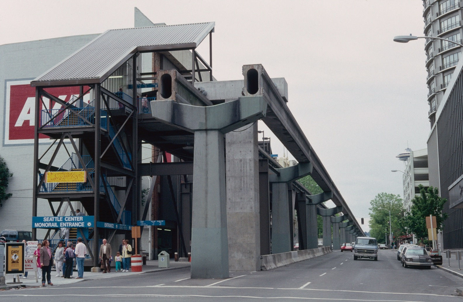 The temporary downtown terminal station of the Seattle Center Monorail in 1987, on 5th Avenue just north of Stewart Street, during work to realign the southernmost section of the monorail line to follow 5th Avenue (instead of Westlake Mall) south of Olive Way. This station replaced the monorail's longtime downtown station that was located over Pine Street and closed on September 1, 1986. By the time of this photo, the original monorail guideway south of Stewart Street had been demolished, but in 1988 a new section of guideway was built, leading to a new, permanent replacement station at the then-new Westlake Center, which section was ready for testing by fall 1988 but did not open for service until February 1989. A small portion of the Westin Seattle hotel is visible at right.